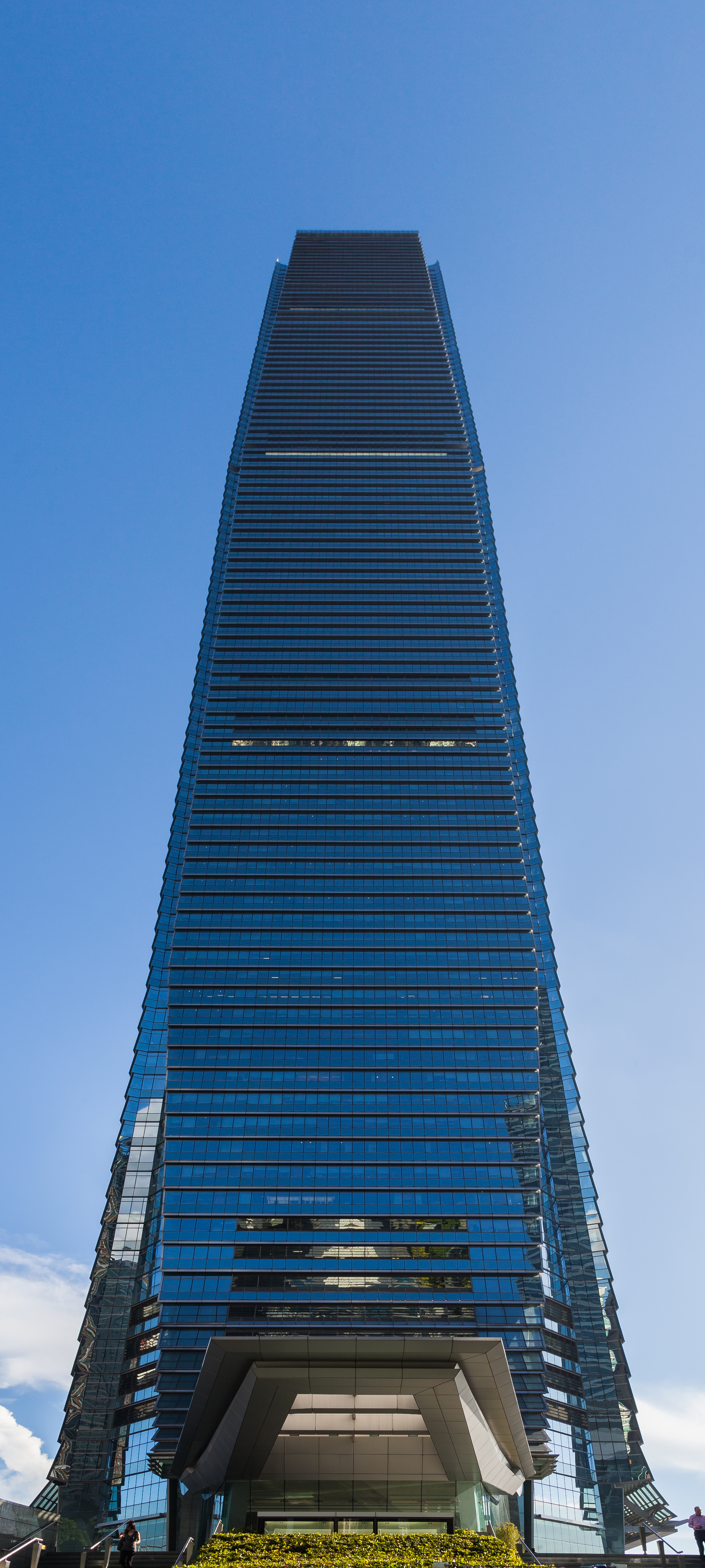 International Commerce Centre, Kowloon, Hong Kong